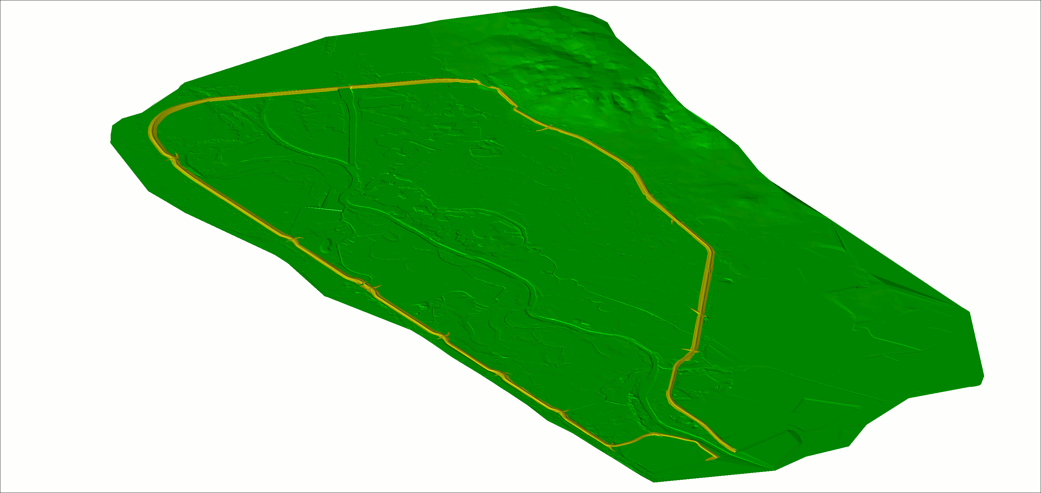 Model of dams of the Racibórz Dolny Reservoir